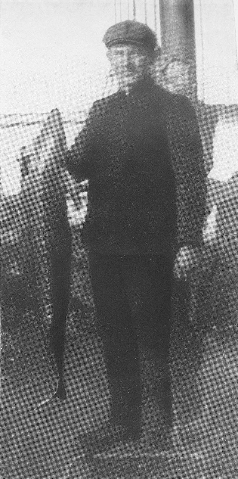 Alexei, the cook, with a sturgeon (Acipenser Baerii)